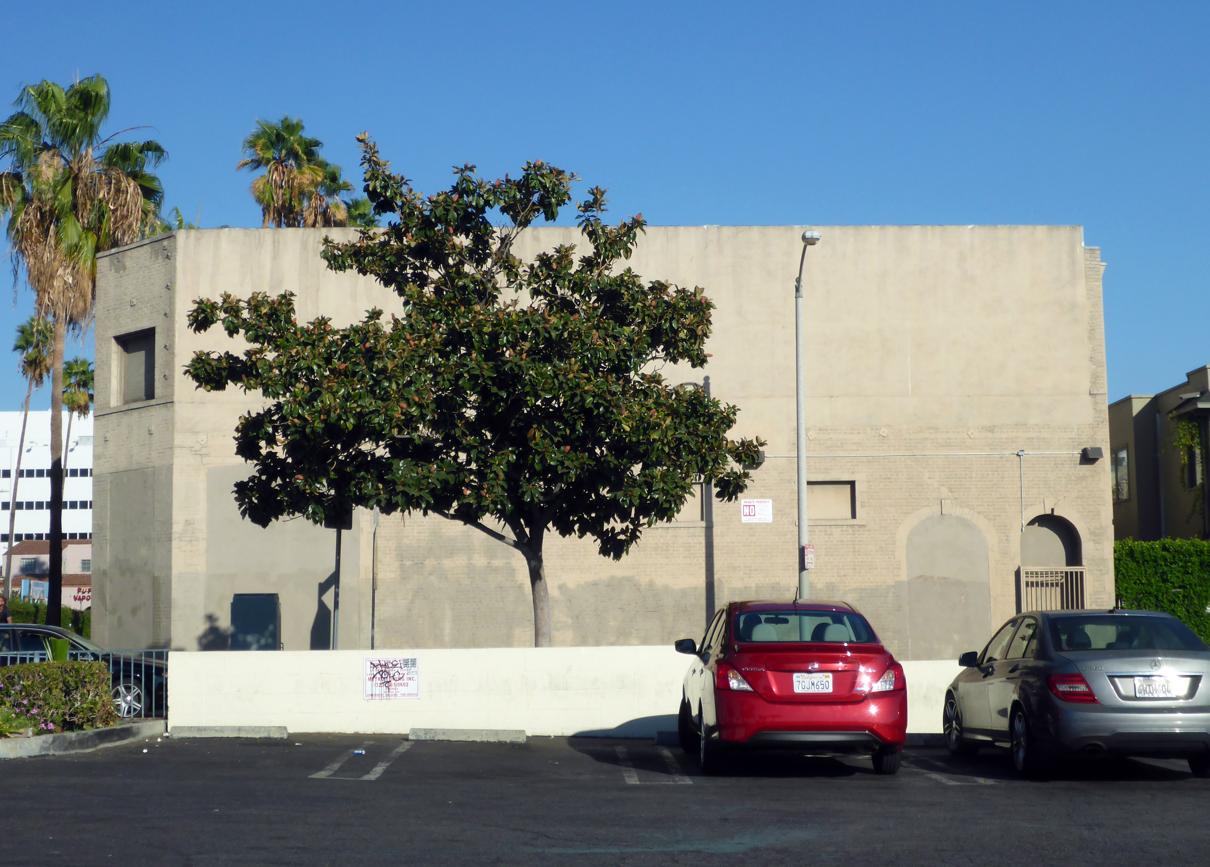 Sunset Sound Recorders in Hollywood, California. Photographed by user Coolcaesar on October 11, 2014.